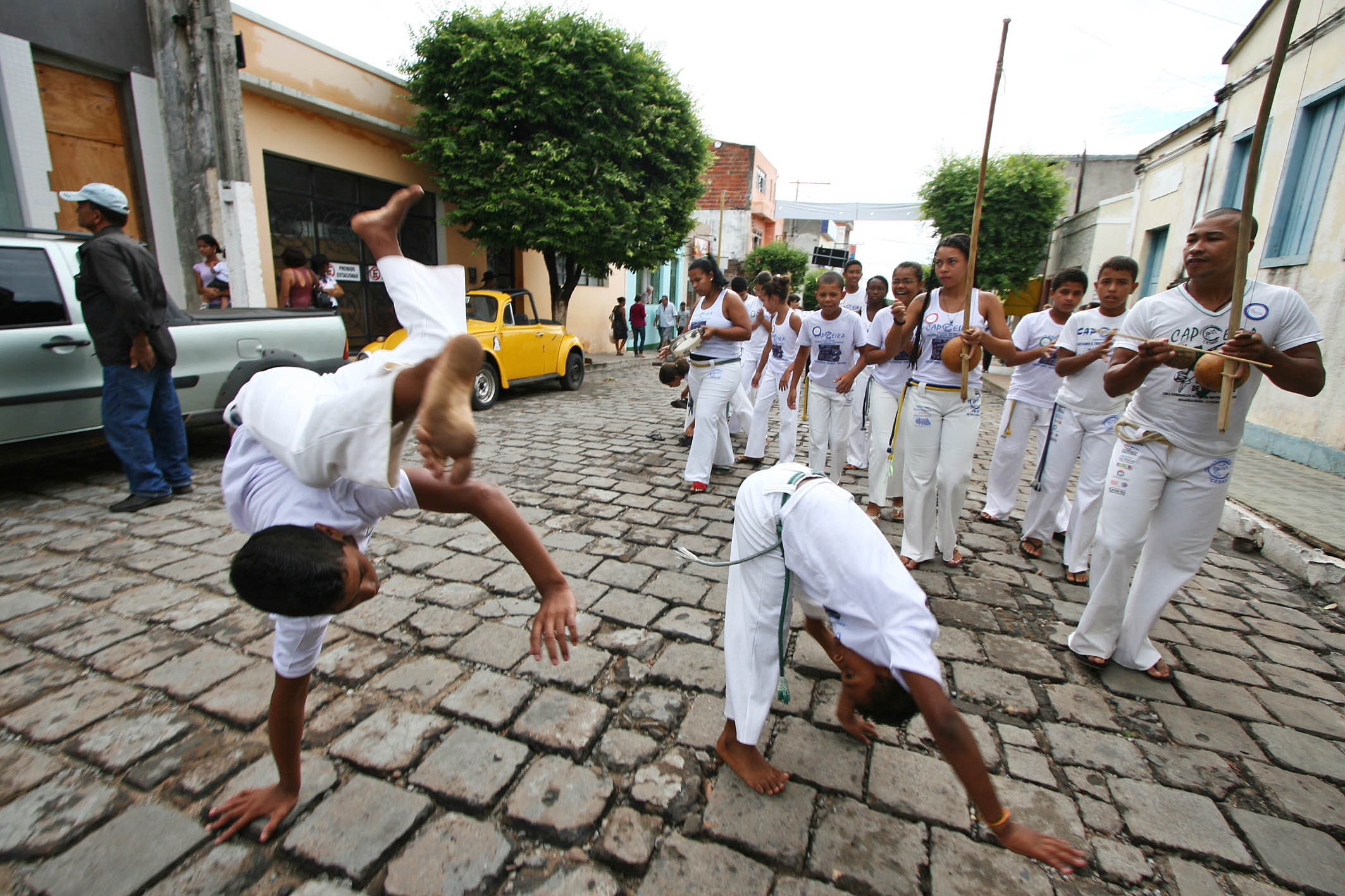 Caravana do Programa de Erradicação do Trabalho Infantil em MacaúbasFoto: Carol Garcia / SECOM